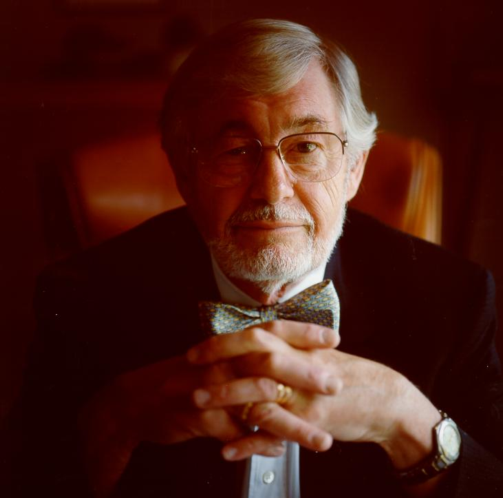 Released for free-use by Branemark himself.